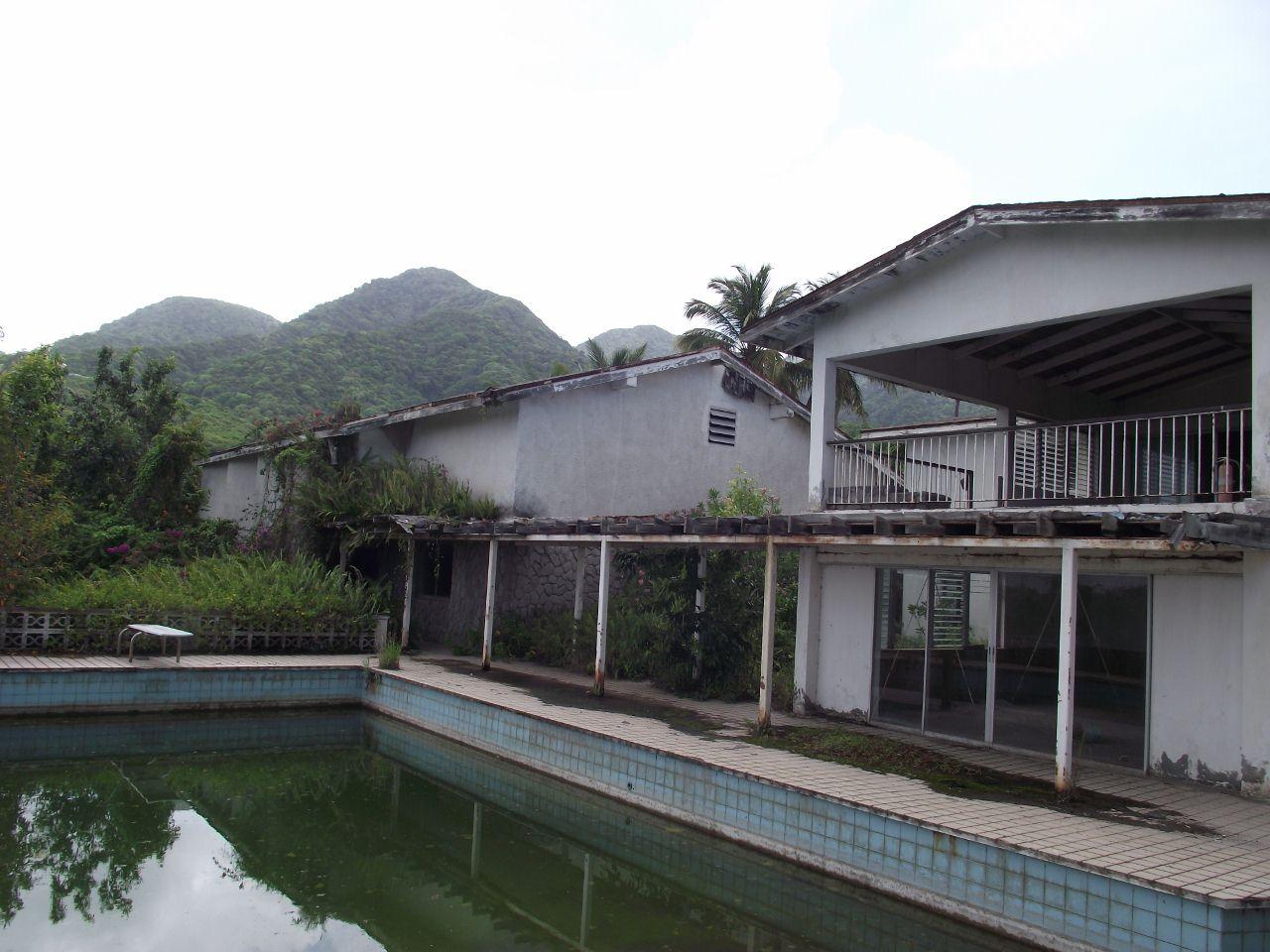 This is a recent picture of the ruins of the AIR Studios taken by me in May of 2013 which I plan to use in article